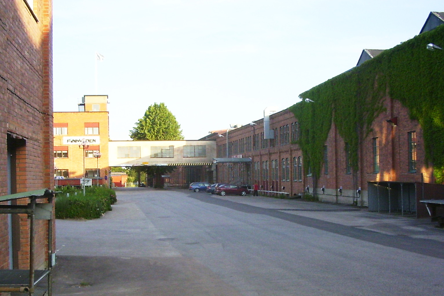 Hallstahammar Industry Street